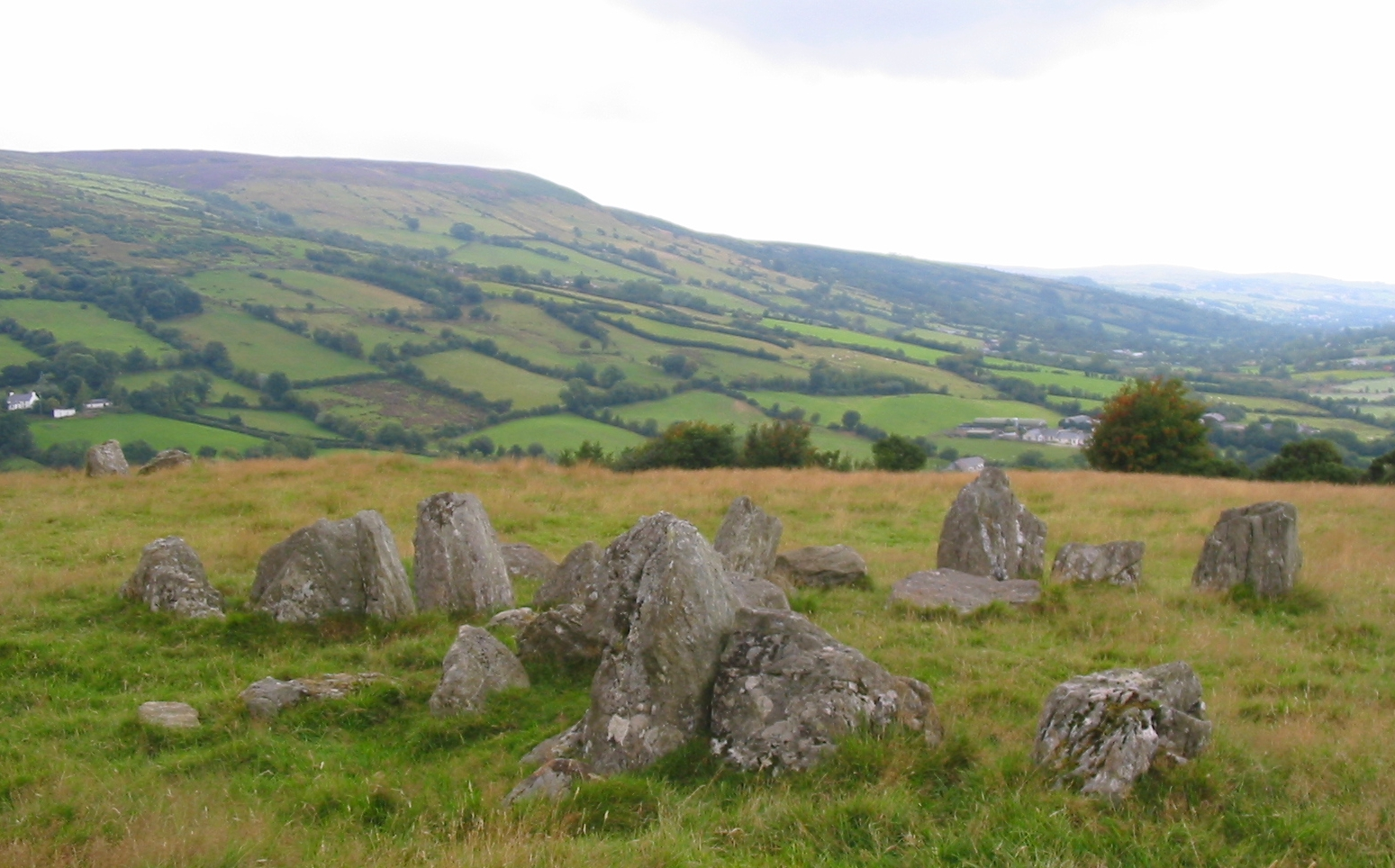 Dolmen called Ossian's Grave, near Cushendall